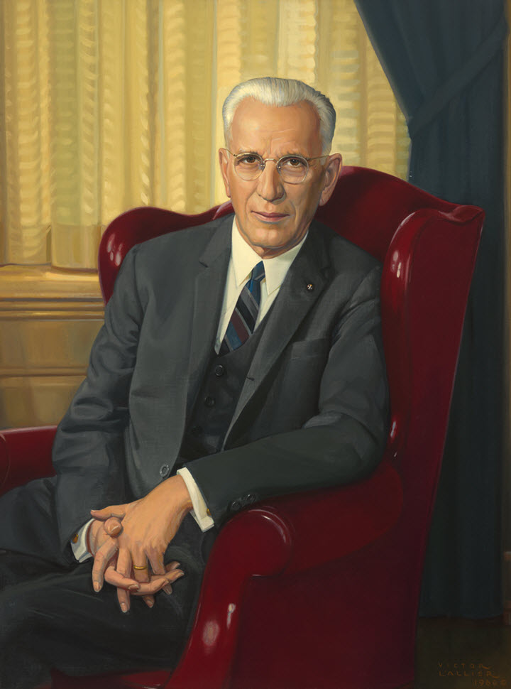 Speaker U.S. House of Representatives John W. McCormack (1891-1980), an official picture